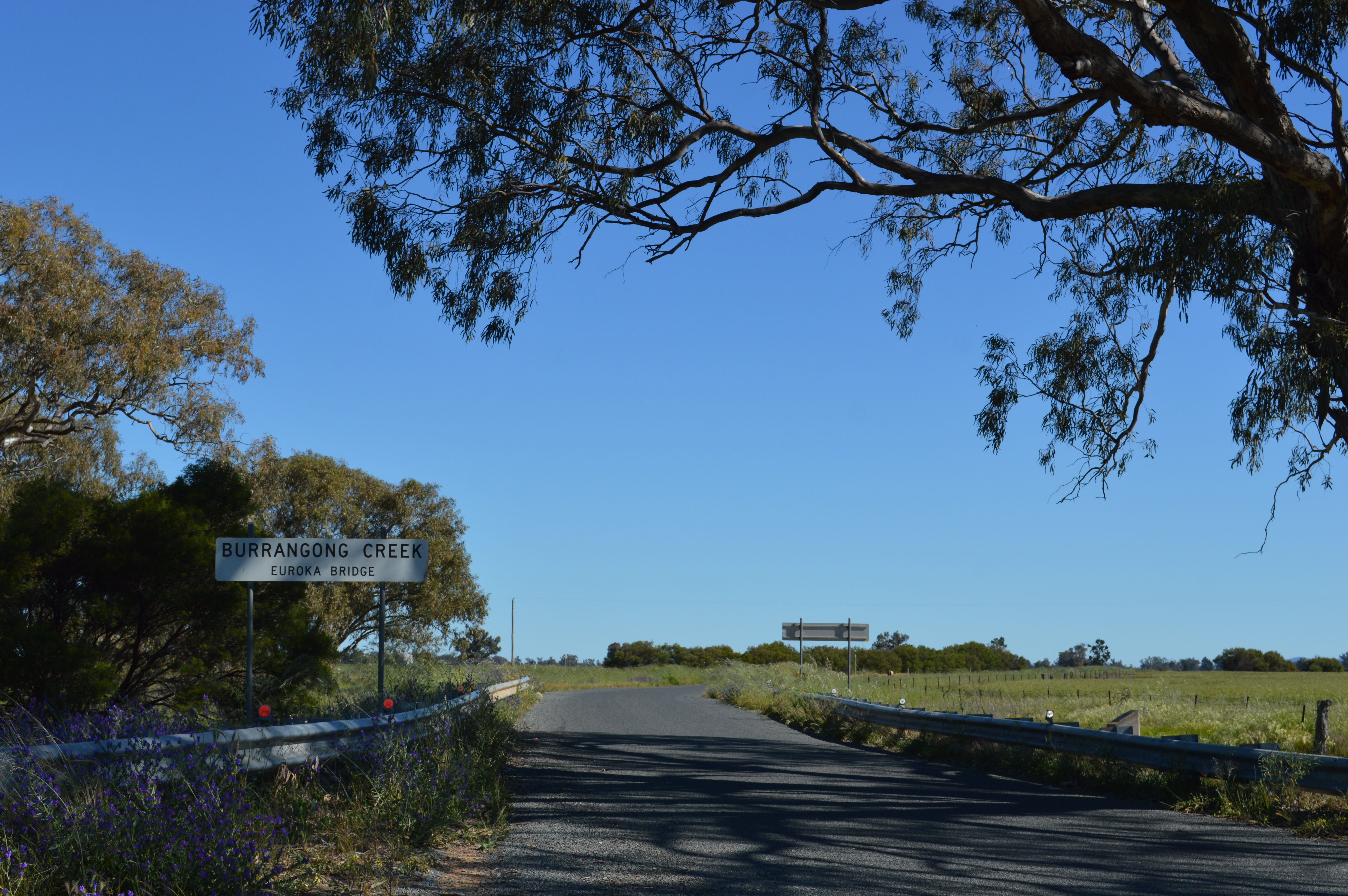 Euroka Bridge over Burrangong Creek at Quandialla, New South Wales